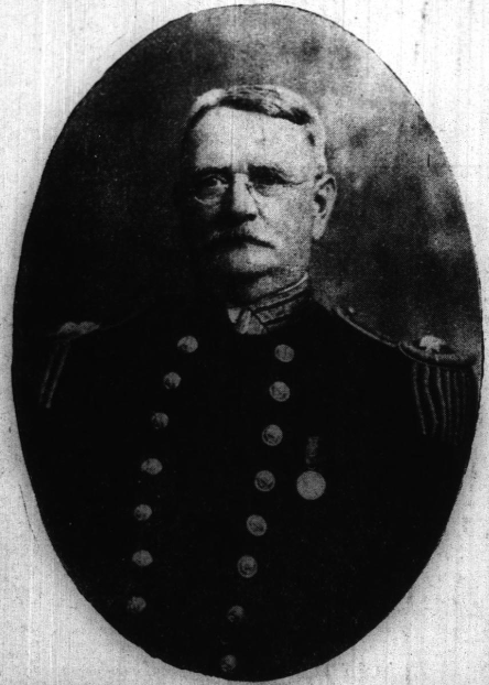 Rear Admiral Charles Brainard Taylor Moore